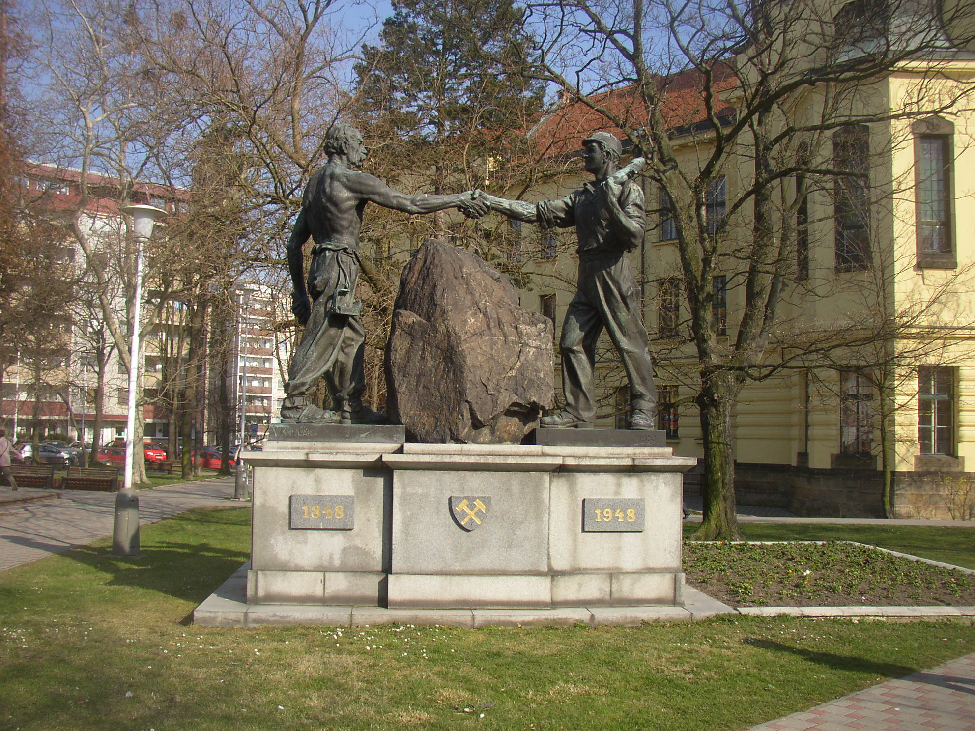 Kladno, Czech Republic. Mining sculpture and Váňa's Stone in a park next to the grammar school, Edvard Beneš Square. The stone from 1854 commemorating first successful coal mining by Jan Váňa on territory of Kladno (1846) was enriched with scuplptures of miners by Ladislav Novák in 1954.